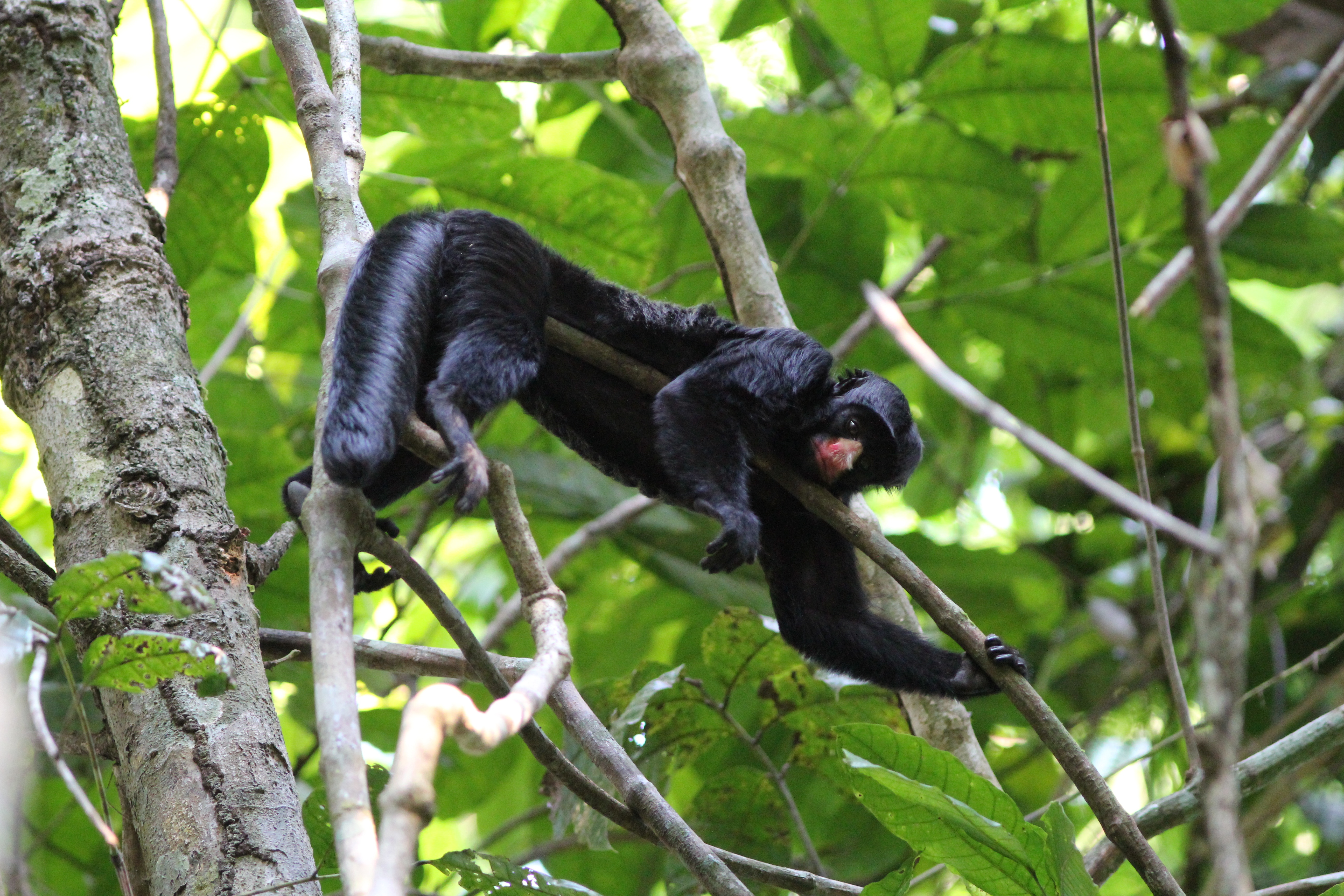 White nosed beard saki (Chiropotes albinasus) in Brazil.